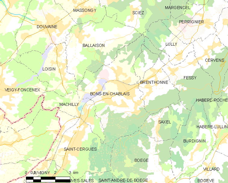 Map of French municipality Bons-en-Chablais